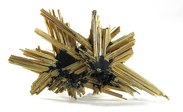 Rutile, Hematite Locality: Novo Horizonte, Bahia, Northeast Region, Brazil (Locality at ) This is a relatively large and FINE example of the stunning rutile crystals that have been coming out of Brazil - actually two intergrown clusters with shimmering, golden crystals radiating outwards, with the characteristic hematite at the center. 6.1 x 3.2 x 1.0cm